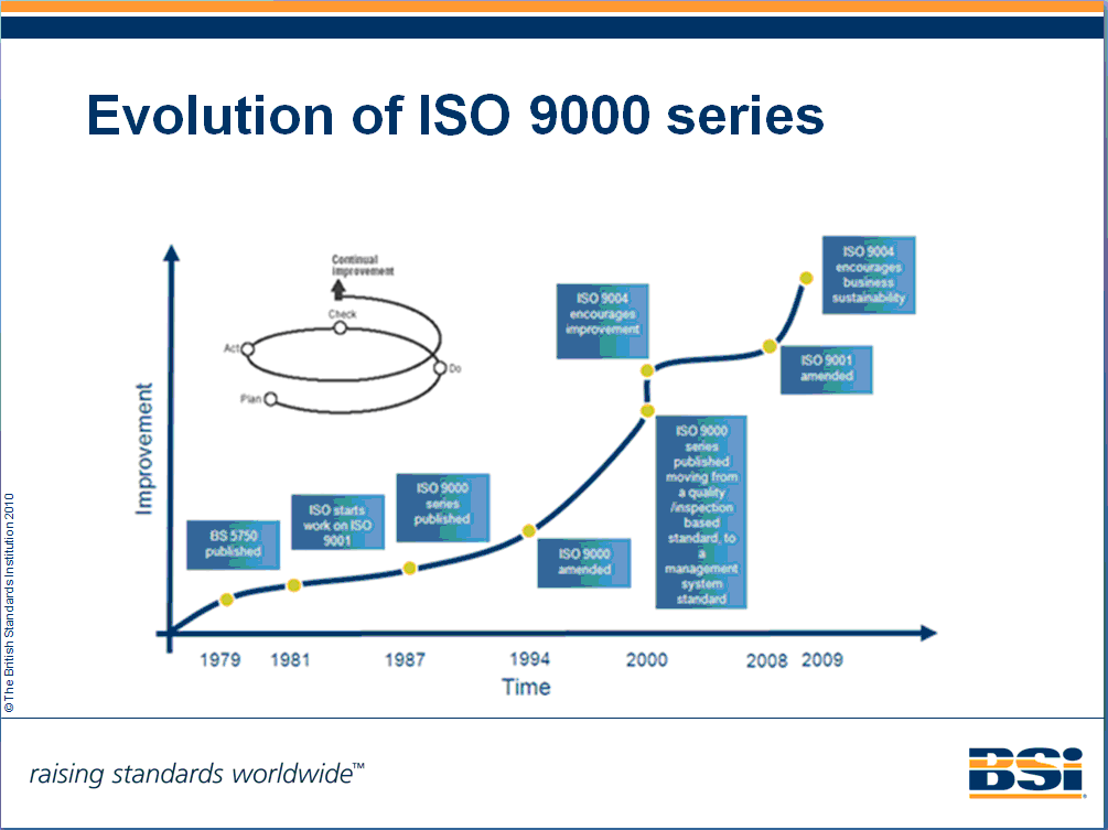 Illustrative diagram of history of development of ISO 9000 series of standards